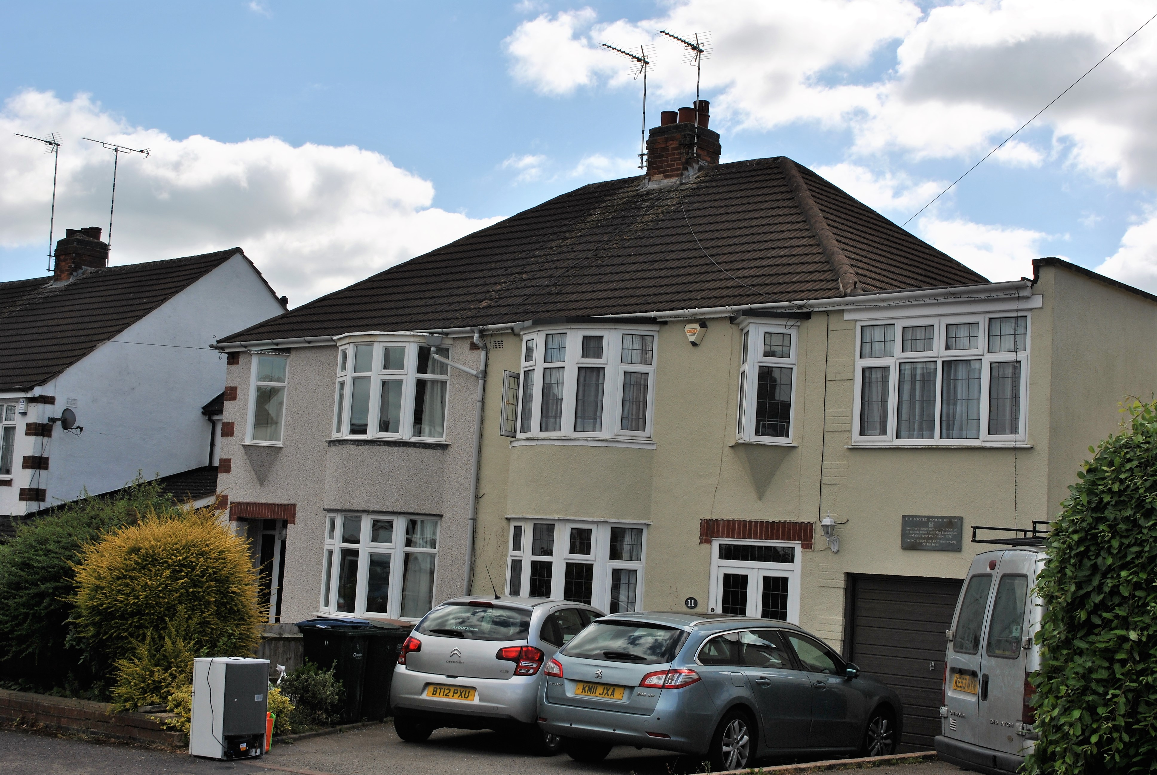 E.M. Forster, Novelist, 1879-1970, lived here sometimes at the home of his friends Robert and May Buckingham and died here on 7 June 1970. Erected to mark the 100th Anniversary of his birth.